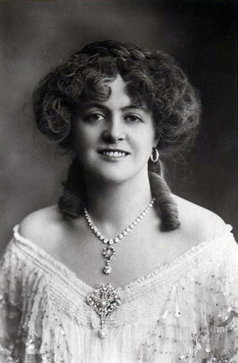 Marie Studholme (1875-1930), star of Victorian and Edwardian musical comedy